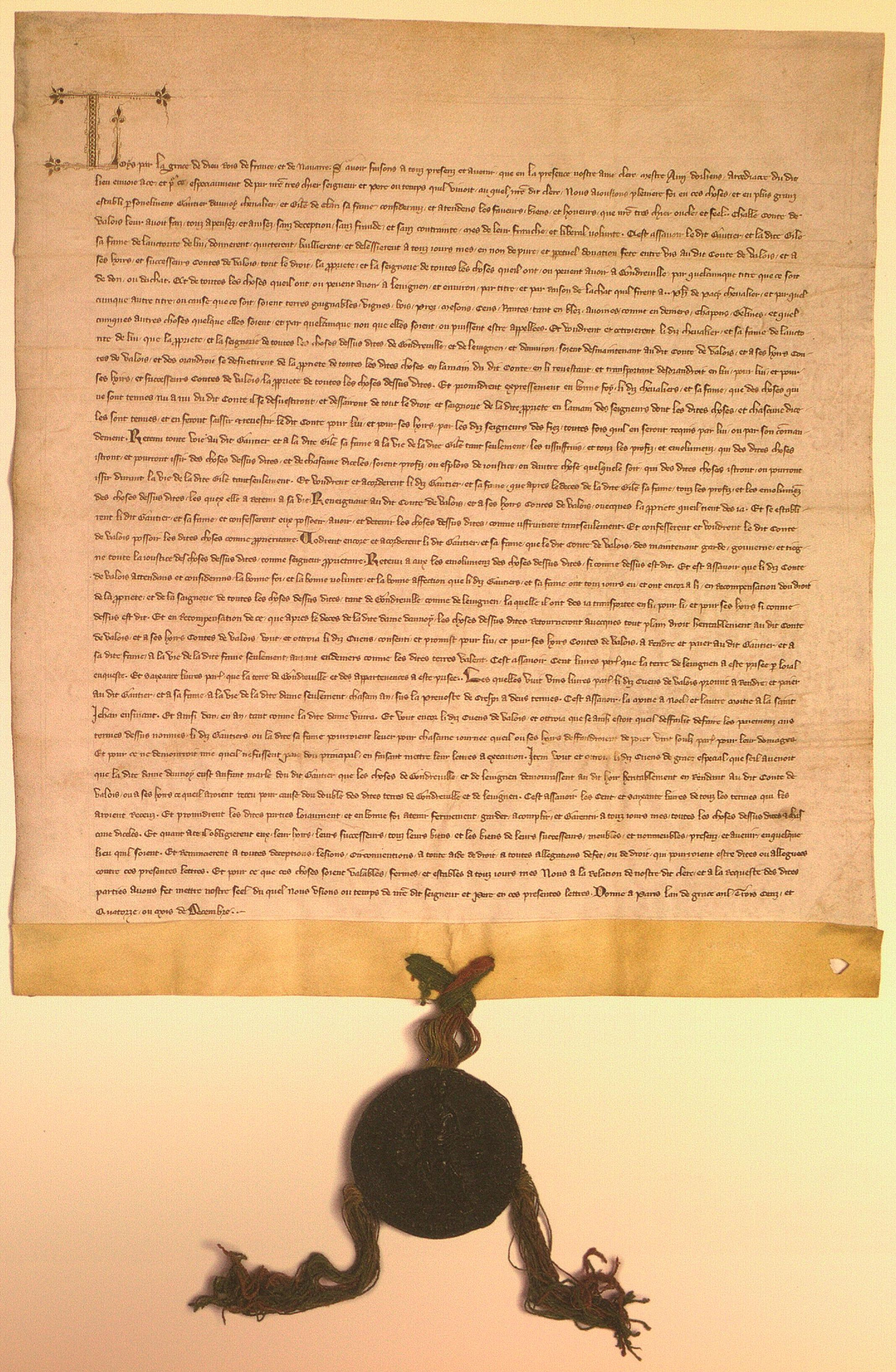 A charter of King Louis X of France. Paris, Archives nationales, J 163 B, No. 59.